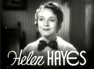 Cropped screenshot of Helen Hayes from the film What Every Woman Knows